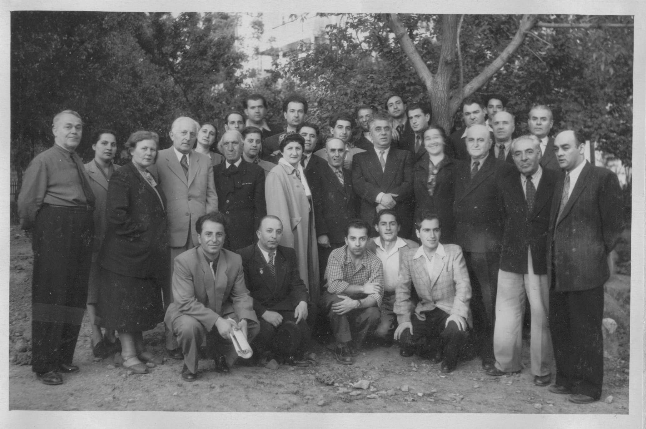 Aram Khachaturian with Armenian composers in Dilijan composer creativity house